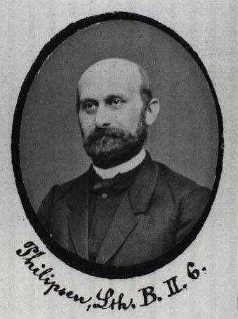 Morits Carl Theodor Philipsen (1814-1877), Danish farmer and politician, MP